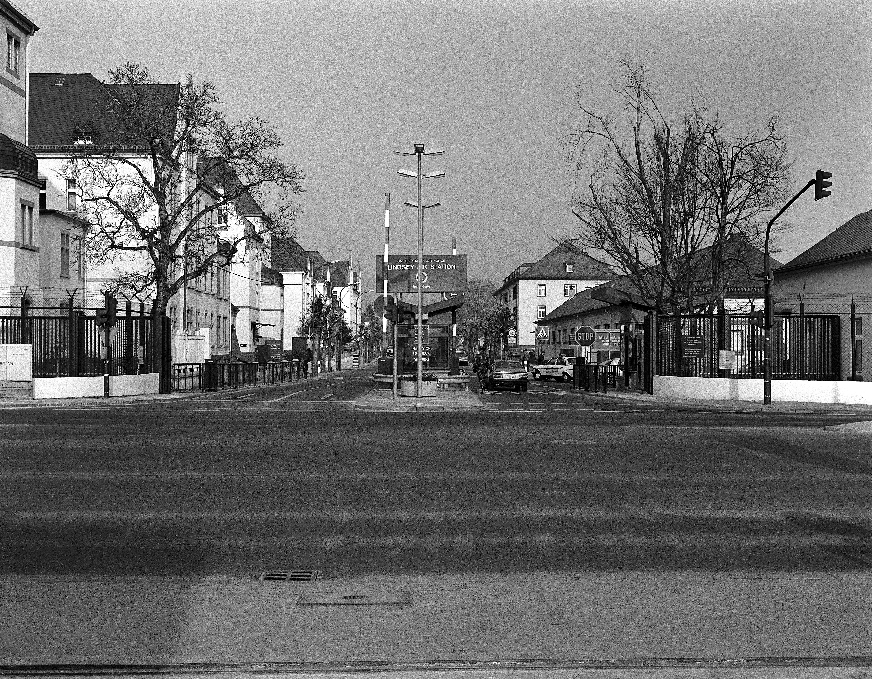 The recently renovated front gate of Lindsey Air Station in Wiesbaden, Germany.